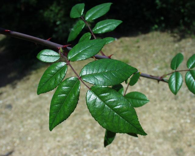 (en) Rosa sempervirens, a photography originating of the internet site The accord of the autor, H. Brisse, is here. (fr) Rosa sempervirens, une photographie issue du site internet L'accord de l'auteur, H. Brisse, se situe ici.